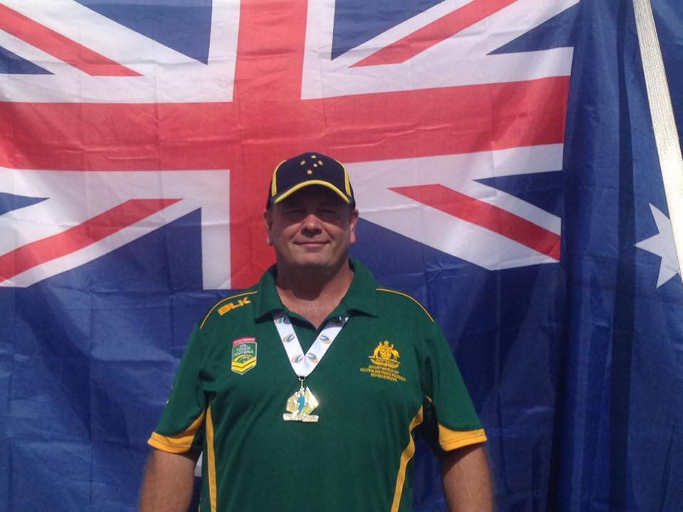 World Cup winning coach